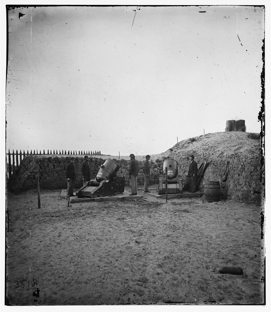 View of the mortar battery manned by Union troops, Morris Island, off Charleston, South Carolina, 1865. Wet collodion glass negative. Library of Congress, Washington, D. C.